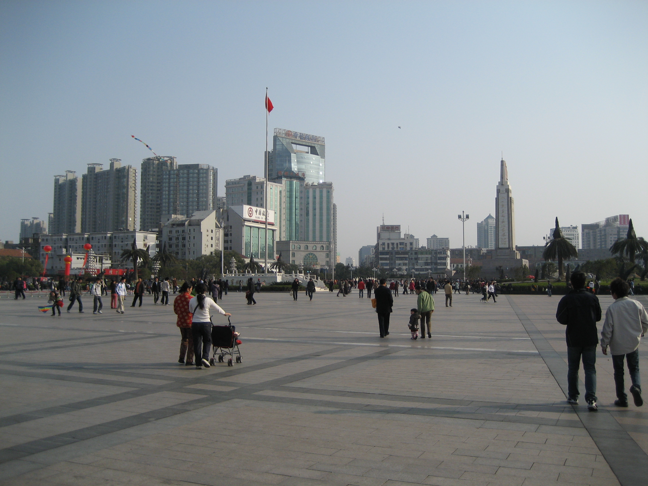 Bayi Square, Nanchang, China